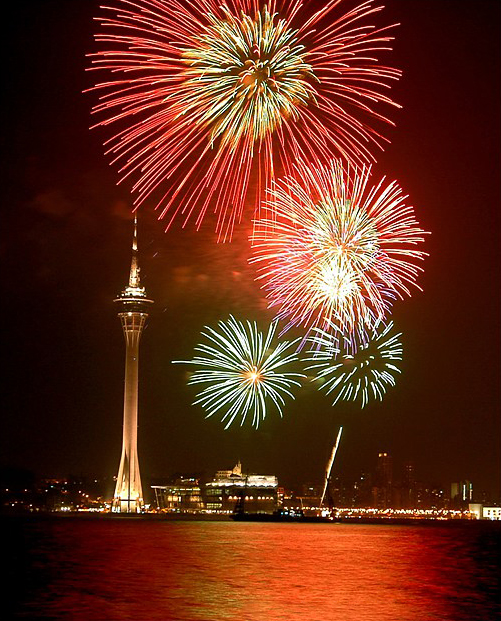 澳門國際煙花展 Macao Fireworks